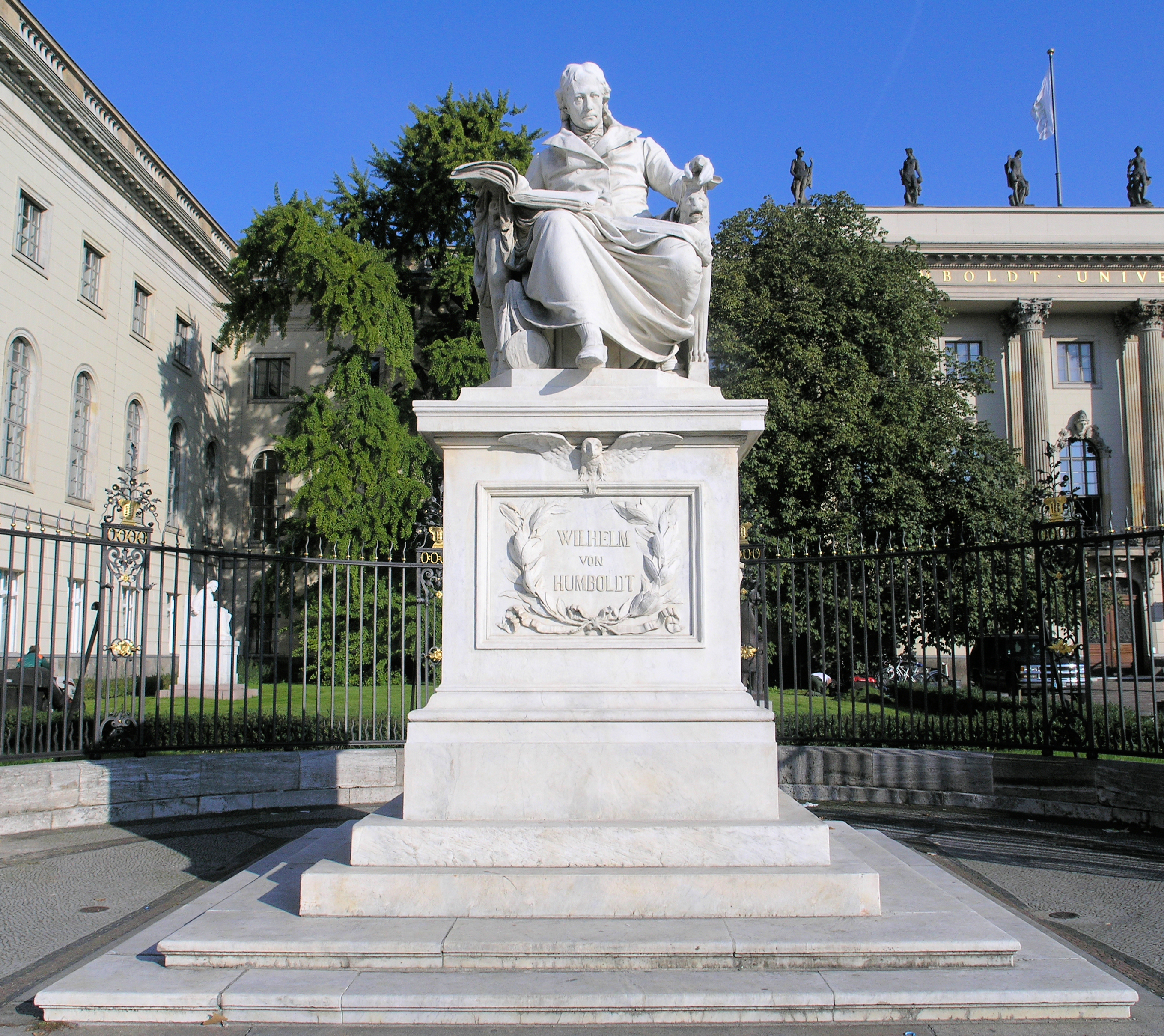 Memorial statue, "Wilhelm von Humboldt" by Martin Paul Otto, 1882/83, Unter den Linden 6, Berlin-Mitte, Germany